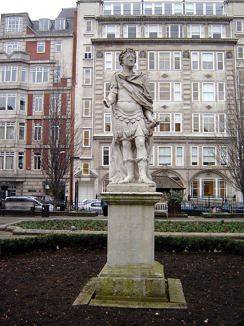 Statue of George II, Golden Square, Soho, London. 14 January 2006. Photographer: Fin Fahey.